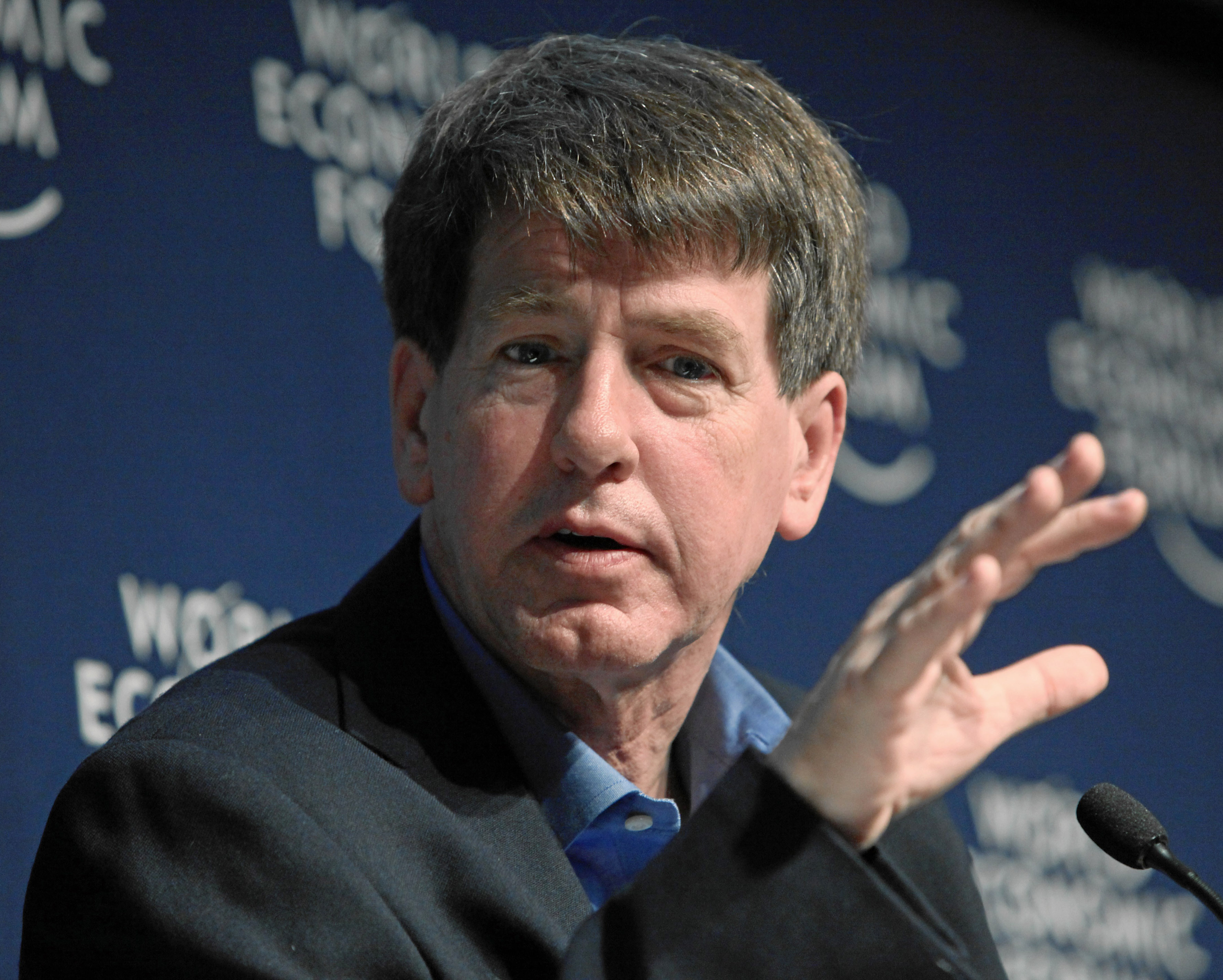 DAVOS/SWITZERLAND, 30JAN10 - Larry Cox, Executive Director, Amnesty International USA, USA is captured during the session 'Redesign Your Cause' of the Annual Meeting 2010 of the World Economic Forum in Davos, Switzerland, January 30, 2010.. . Copyright by World Economic Forum. by Monika Flueckiger. . .